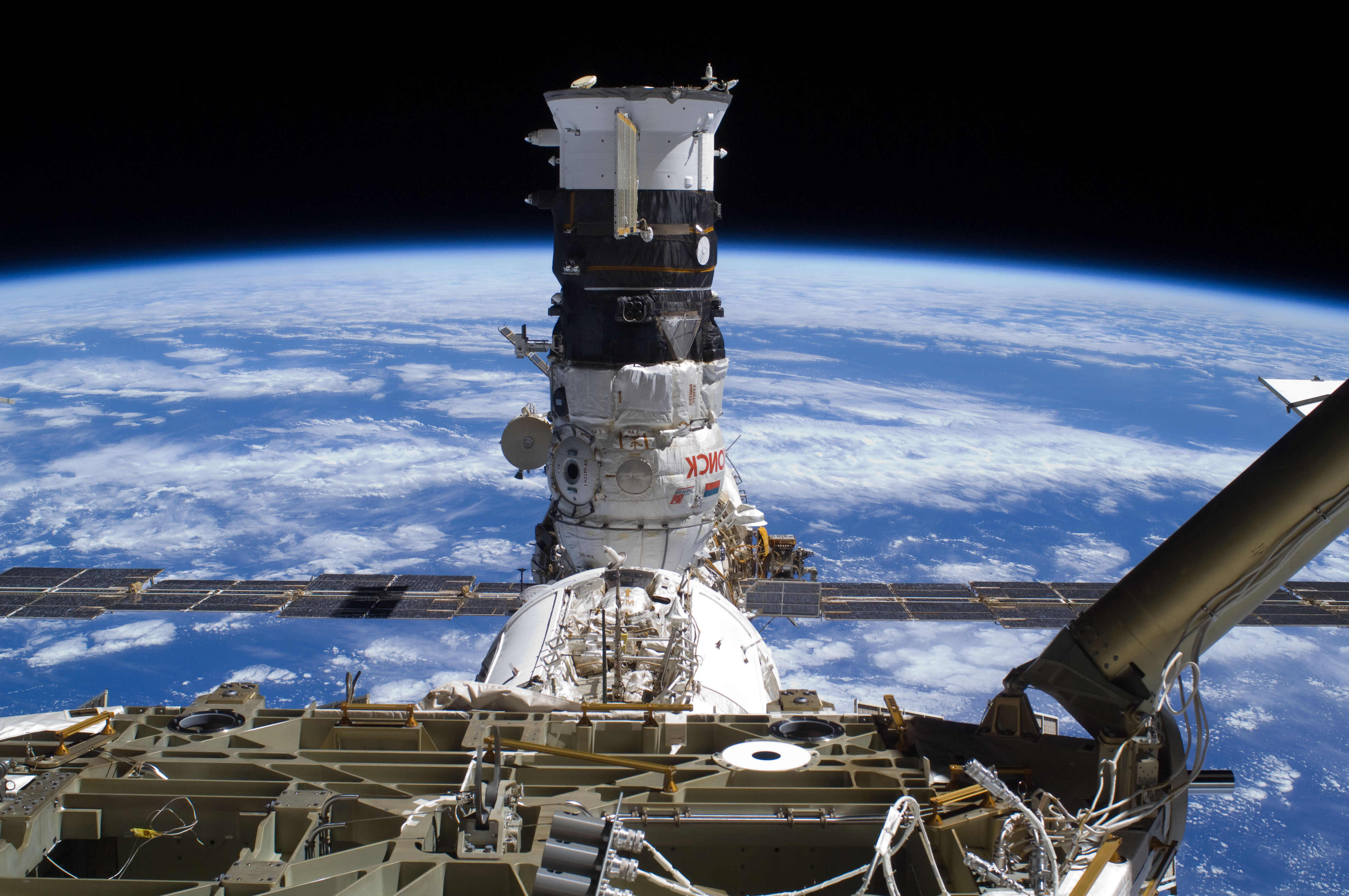 One of the newest pieces of hardware docked with the International Space Station is the Mini Research Module 2 (MRM-2), featured in this electronic still image downlinked by the Expedition 21 crewmembers during flight day six activities.